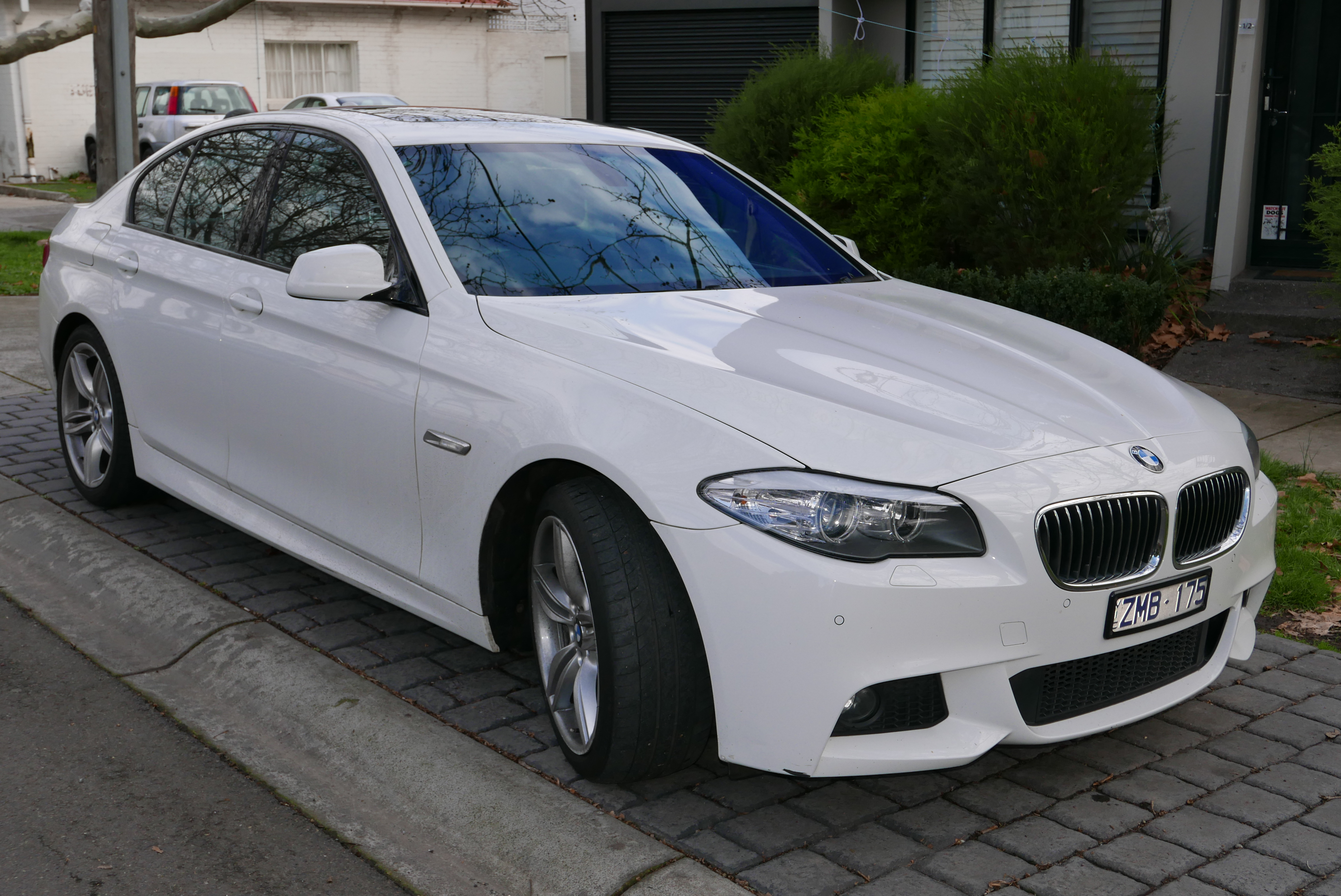 2012 BMW 520d (F10 MY13) sedan. Photographed in Alphington, Victoria, Australia. Vehicle registration enquiry resultsJurisdictionVictoriaRegistrationZMB175Chassis codeWBAFW12020C848131Engine code91008224Compliance date2012-09Year of manufacture2012